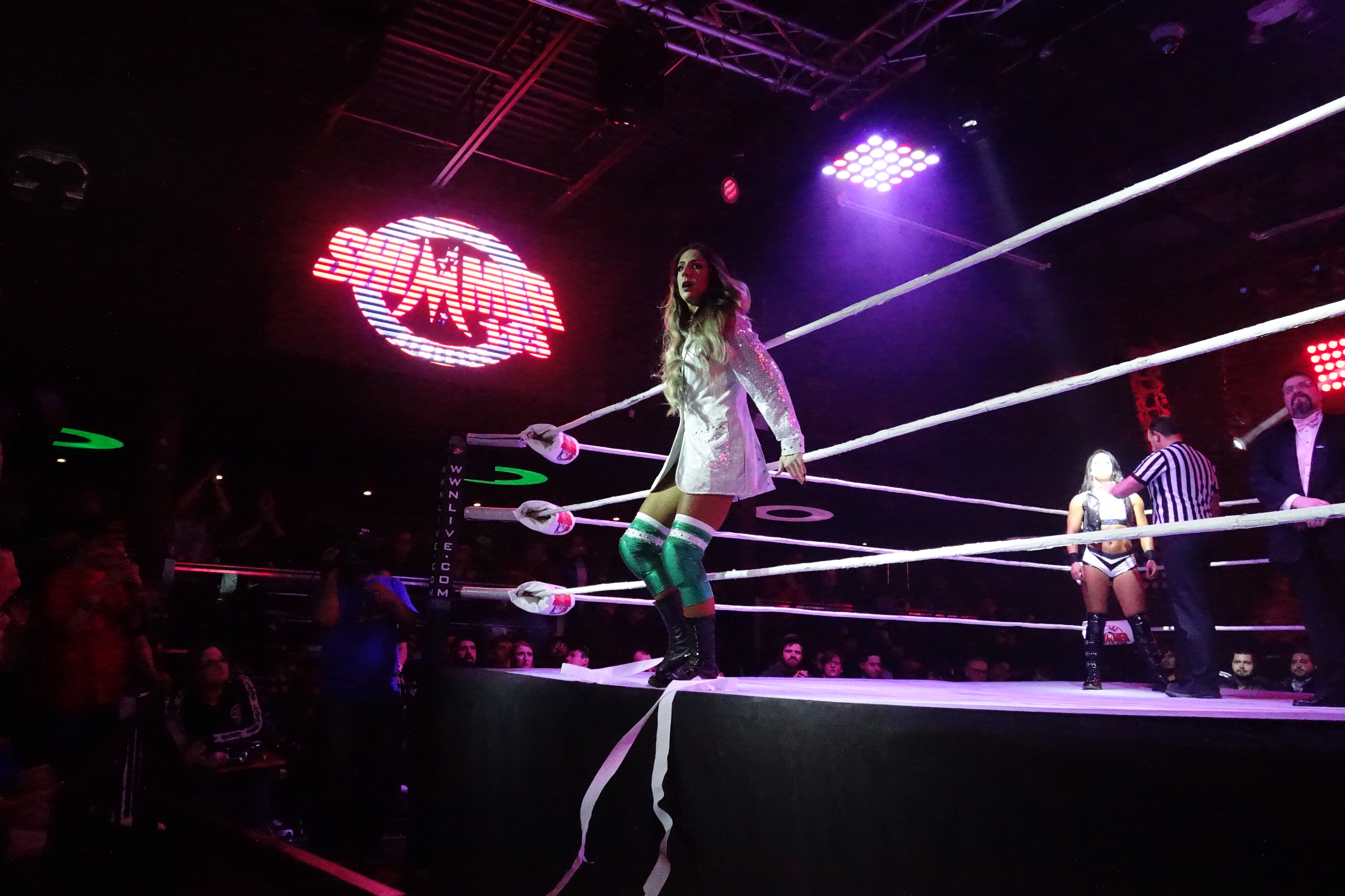 Britt Baker